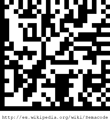 semacode-es.png Semacode barcode for spanish wikipedia article